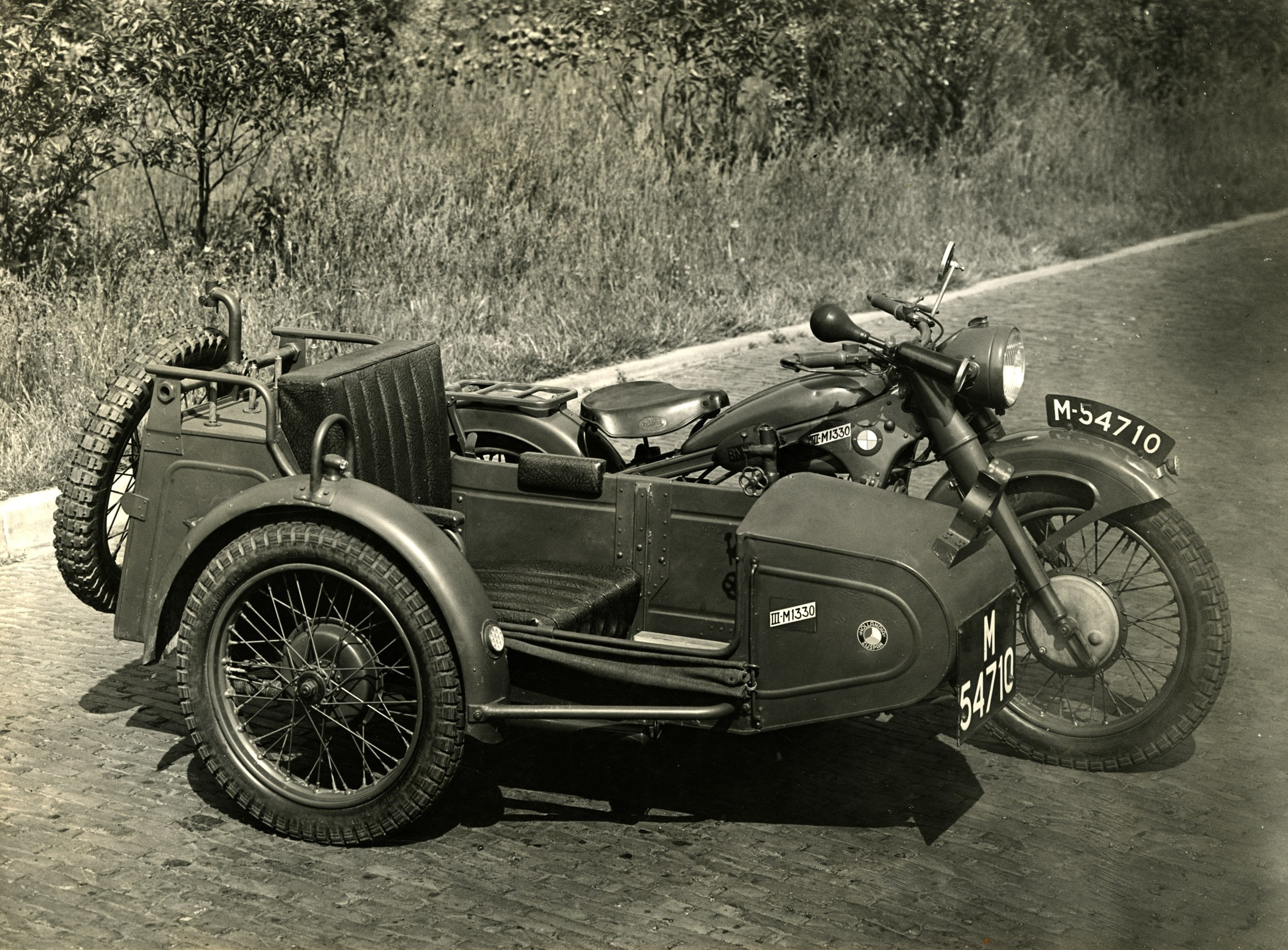 BMW Motorcycle with Hollandia zijspan